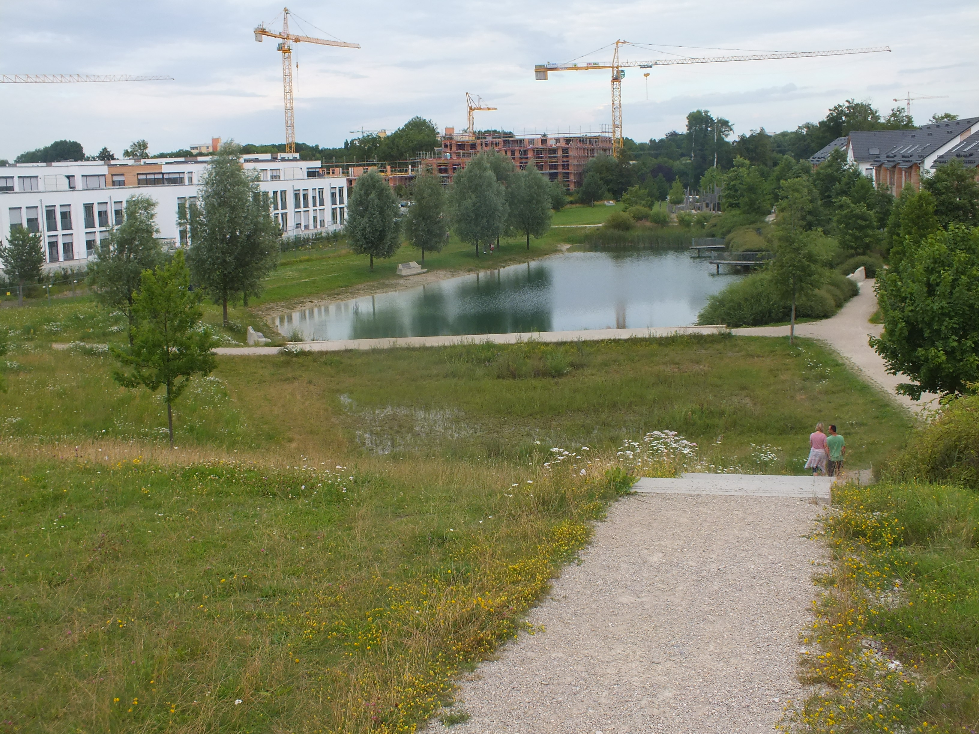 Prinzenpark in Karlsfeld